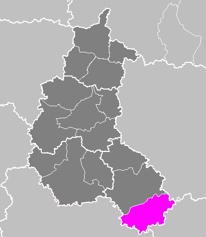 Maps of arrondissements and cantons of France: Arrondissement de Langres.PNG